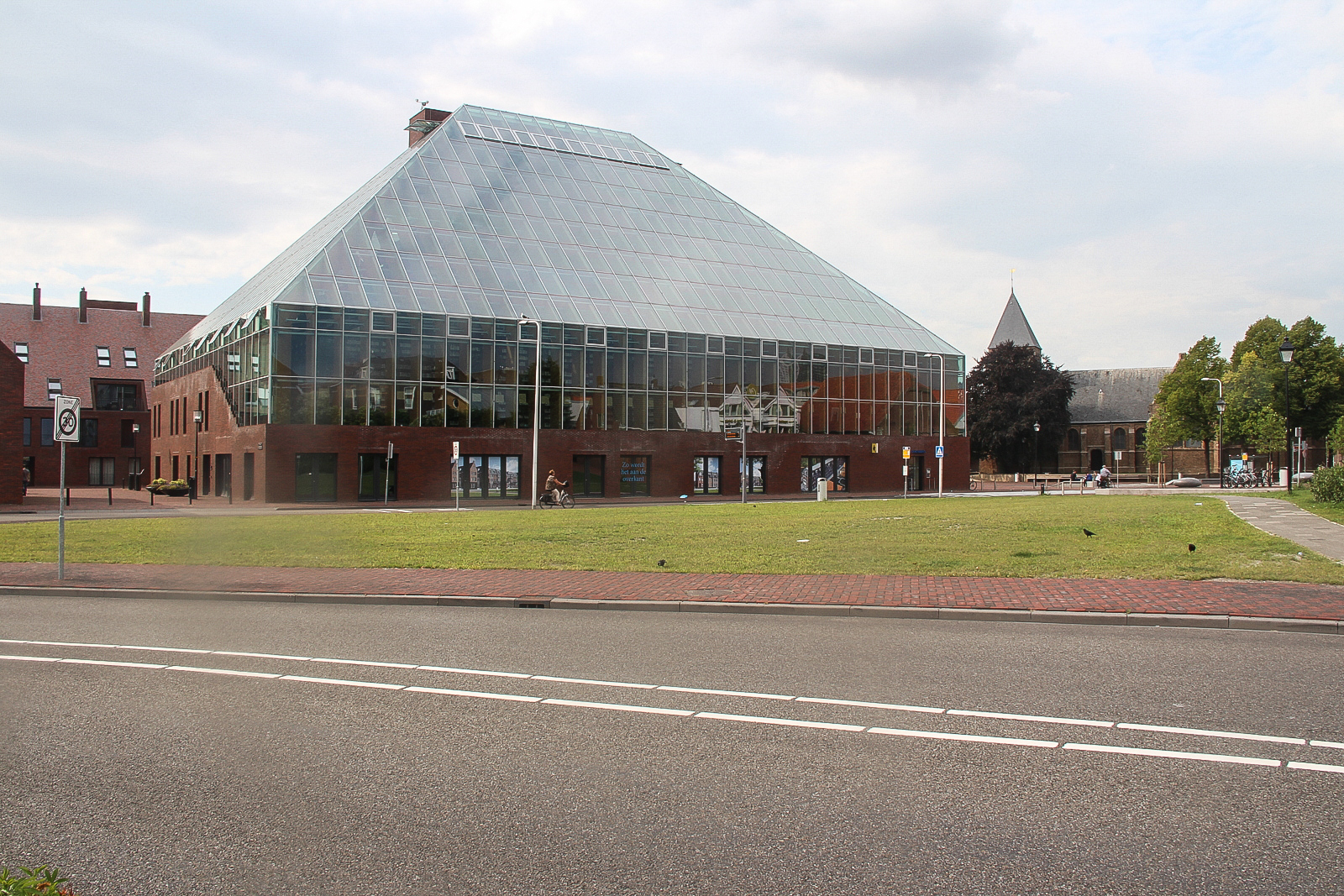 Boekenberg large library in Spijkenisse